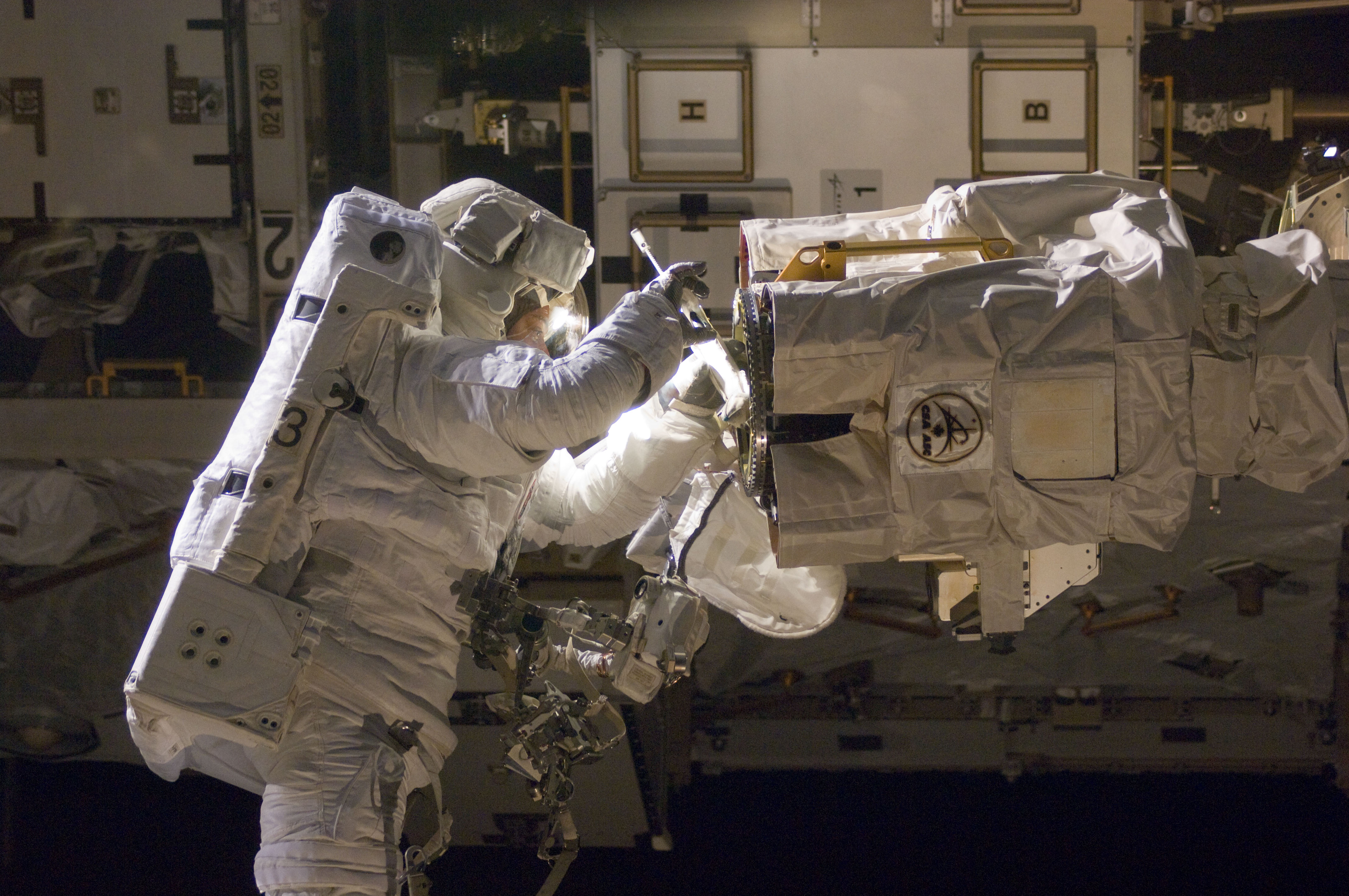 Astronaut Robert L. Satcher Jr., STS-129 mission specialist, participates in the mission's first session of extravehicular activity (EVA) as construction and maintenance continue on the International Space Station. During the six-hour, 37-minute spacewalk, Satcher and astronaut Mike Foreman (out of frame), mission specialist, installed a spare S-band antenna structural assembly to the Z1 segment of the station's truss, or backbone. Foreman and Satcher also installed a set of cables for a future space-to-ground antenna on the Destiny laboratory and replaced a handrail on the Unity node with a new bracket used to route an ammonia cable that will be needed for the Tranquility node when it is delivered next year. The two spacewalkers also repositioned a cable connector on Unity, checked S0 truss cable connections, and lubricated latching snares on the Kibo robotic arm and the station's mobile base system.